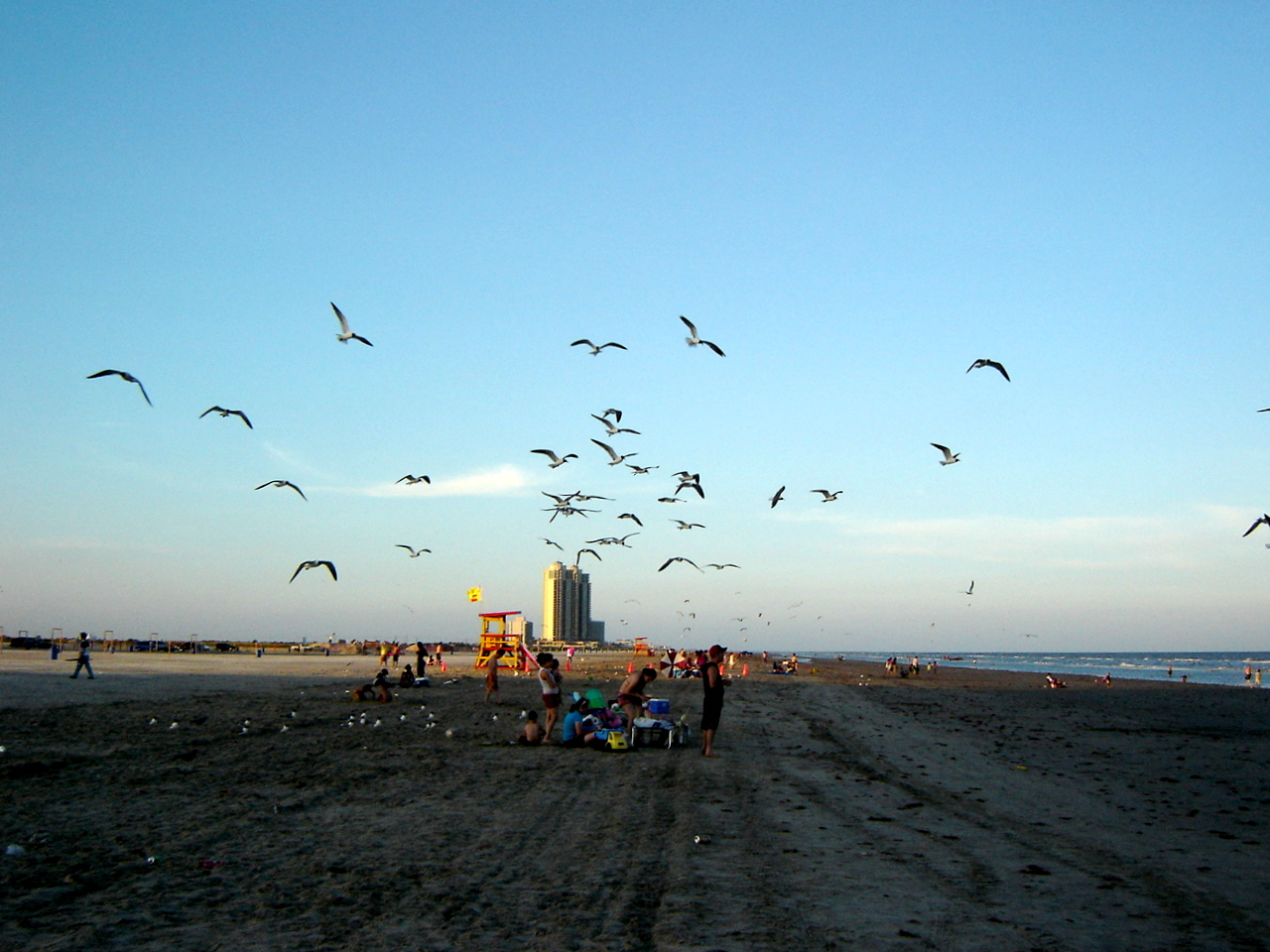 Beach View at Galveston, Texas